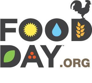 Food Day logo